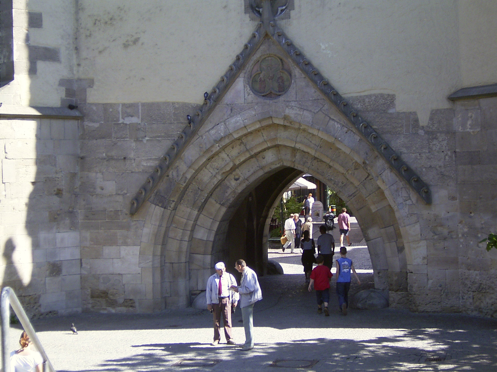 Reutlingen (Germany), one of the access portals of the old town, called "Tübinger Tor"